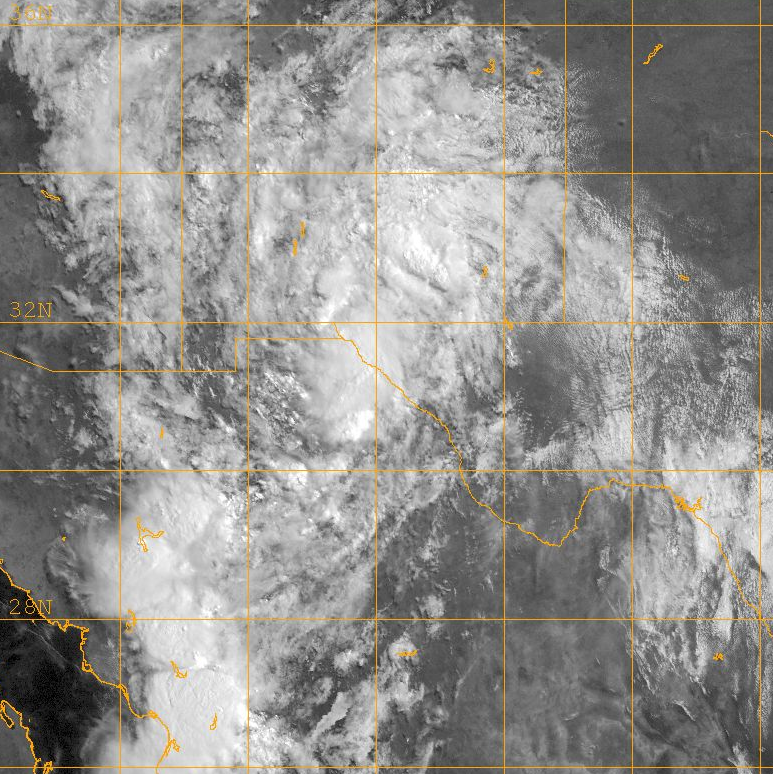 Satellite image of the remnants of Hurricane Dolly entering New Mexico